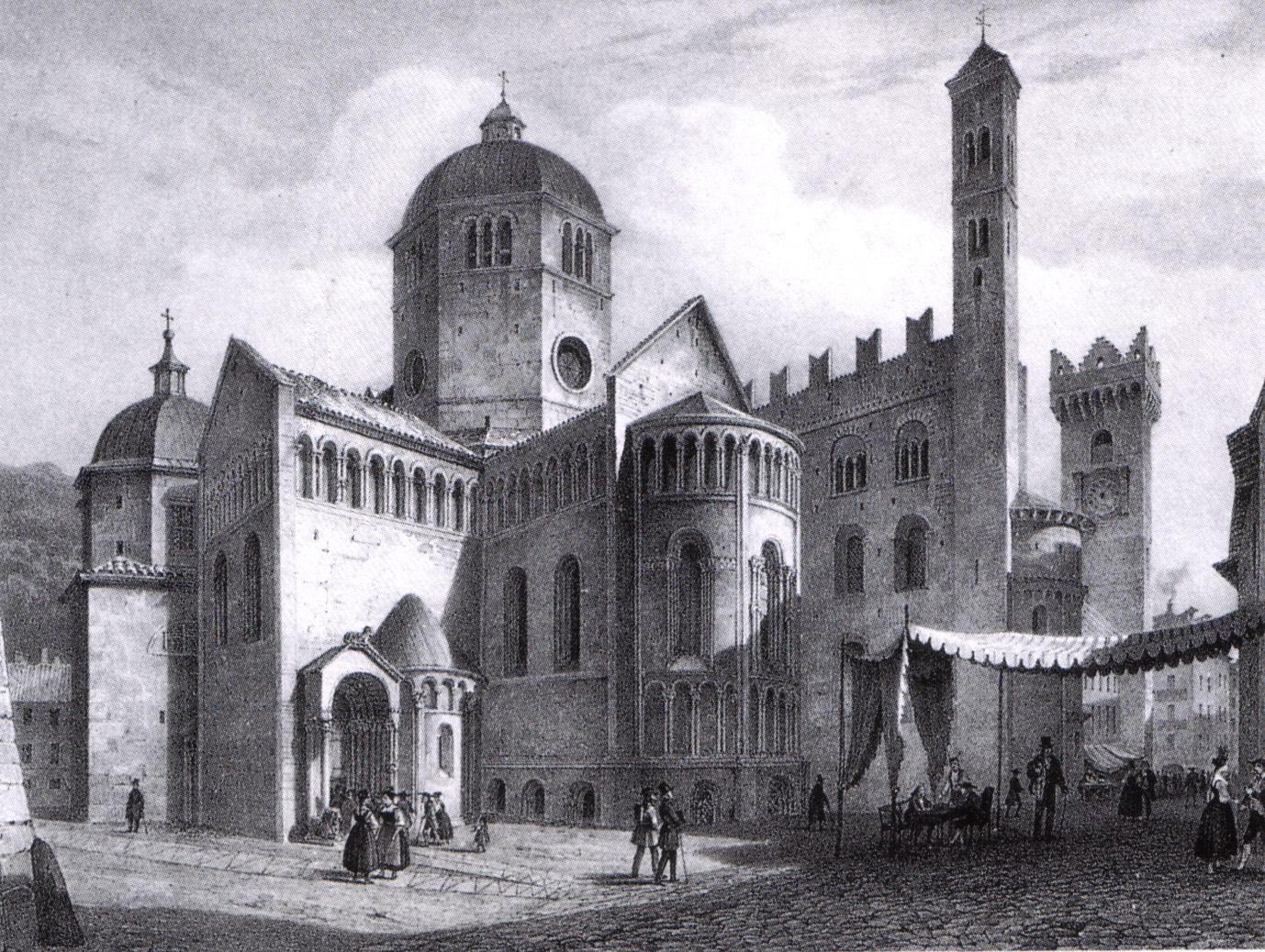 Eastern side of the cathedral of Sain Vigilius in Trento in the XIX century, with the church tower of Saint Romedio and the Torre Civica (Civic Tower) on the right.